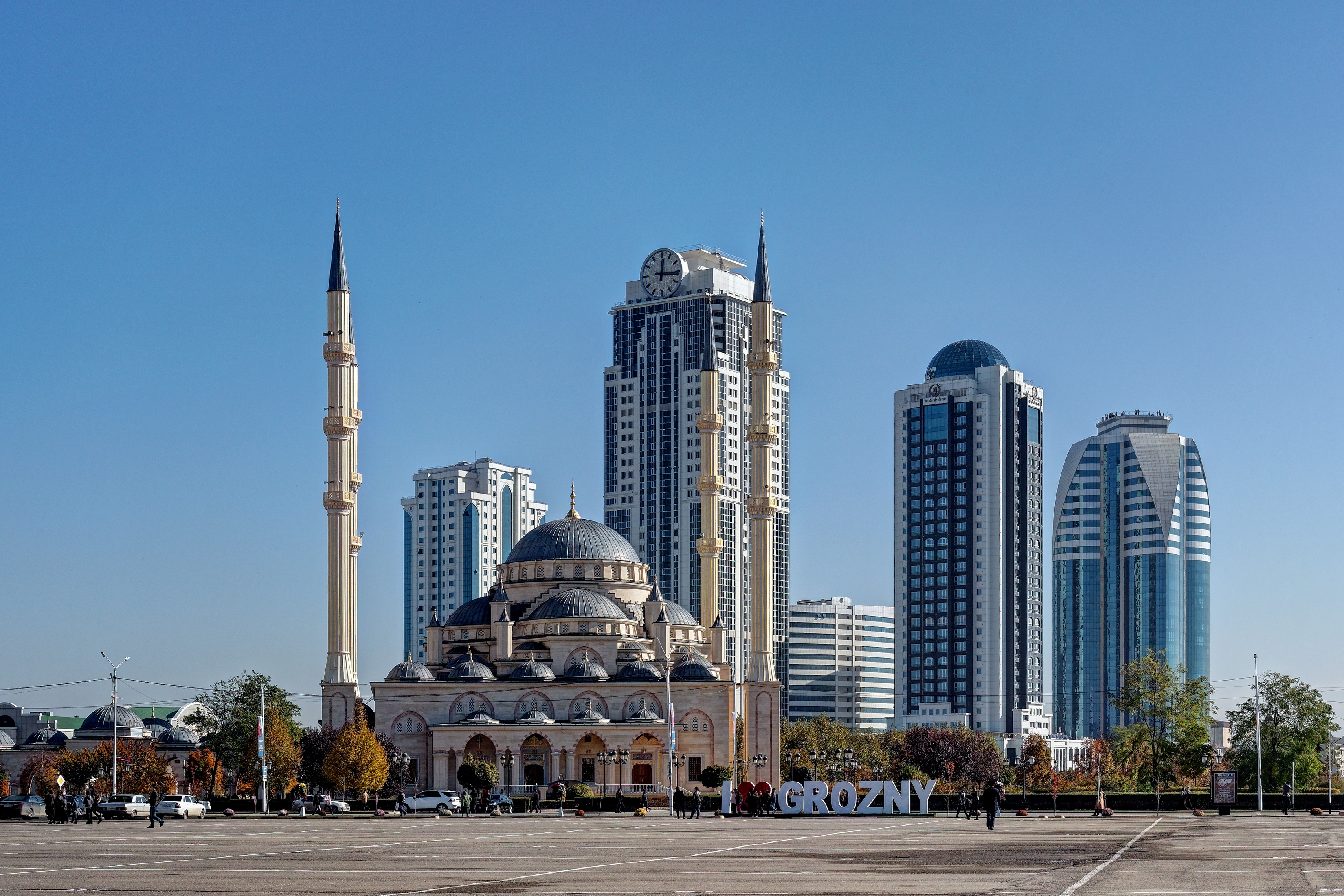 Grozny. Grozny-City Towers. Mosque "The Heart of Chechnya"